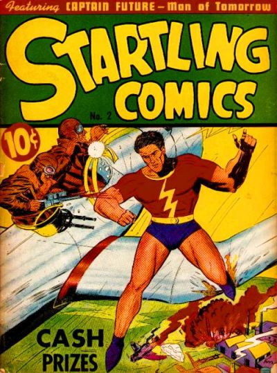 Cover, Startling Comics #2 ( August 1940; Better/Nedor/Standard -- defunct company). Cover art by Kin Platt